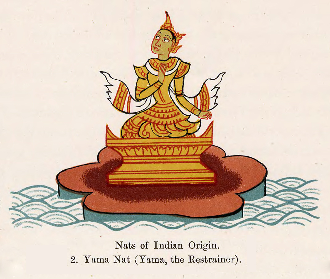 Yama Nat in Burmese representation မြန်မာဘာသာ: ယမမင်း